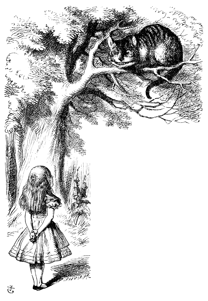 Illustration of the Cheshire Cat from the original edition of Alice in Wonderland